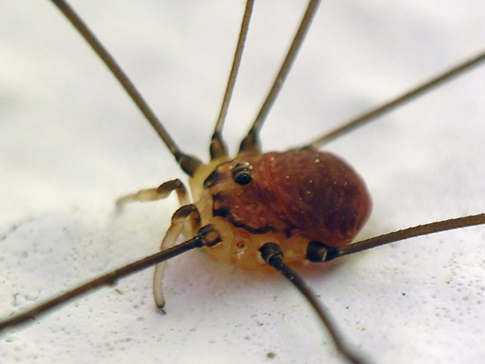 Possibly Leiobunum blackwalli? This could very well be a male L. blackwalli but it's not a good idea to confirm such identification without any indication of the geographic location where the animal was found.